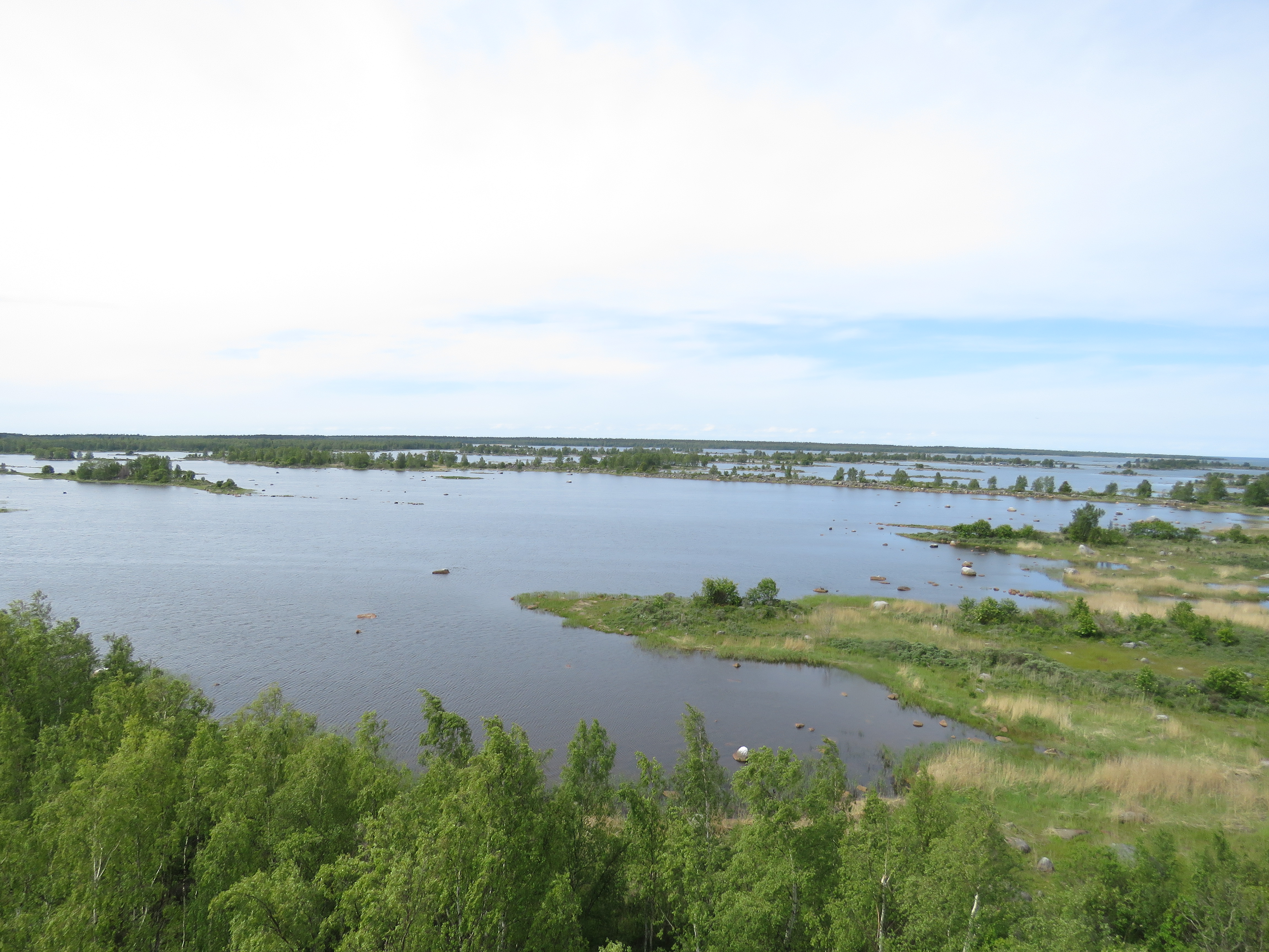 Post glacial de Geer moraines at Svedjehamn (Korsholm, Finland). These formations are part of Kvarken-Höga Kusten UNESCO World Heritage area.